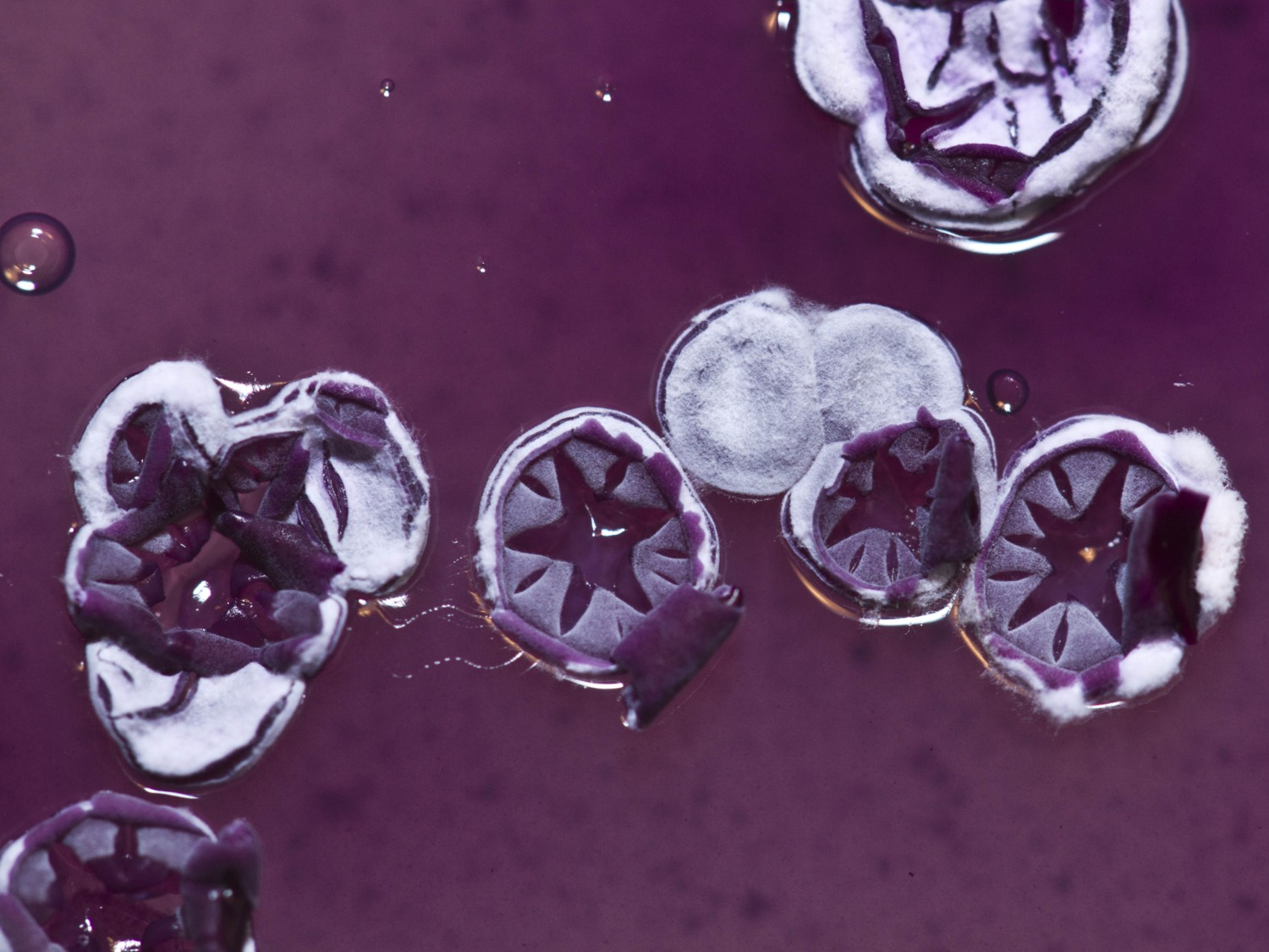 Streptomyces violaceus colony